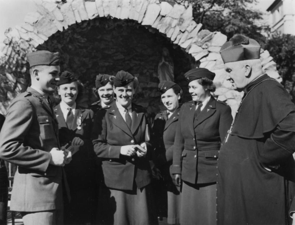 American Army nurses meeting the Archbishop Duhig, Brisbane, ca. 1944. U.S. personnel in the grounds of St Stephen's Cathedral.